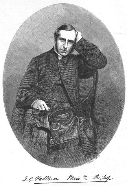 John Coleridge Patteson (1827-1871), Anglican bishop of Melanesia